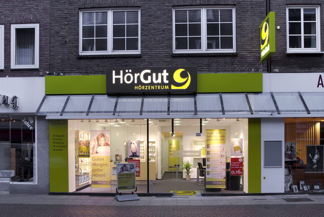 Picture of HörGut Hörzentrum